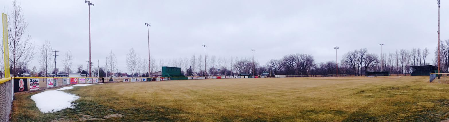 Panorama of baseball field in Ada.